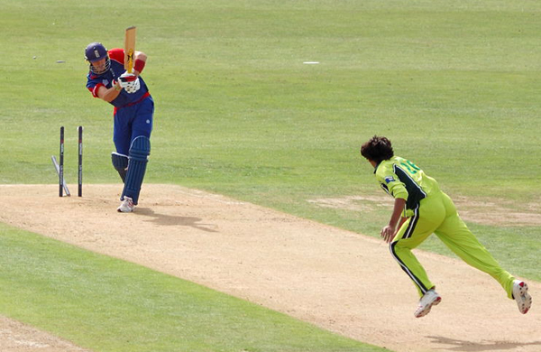 English batsman Kevin Pietersen being bowled first ball in Bristol by Pakistan's Mohammad Asif